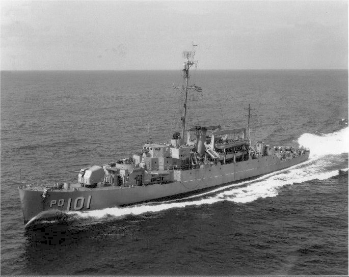 The U.S. Navy high-speed transport USS Knudson (APD-101) underway at sea, in the 1950s.